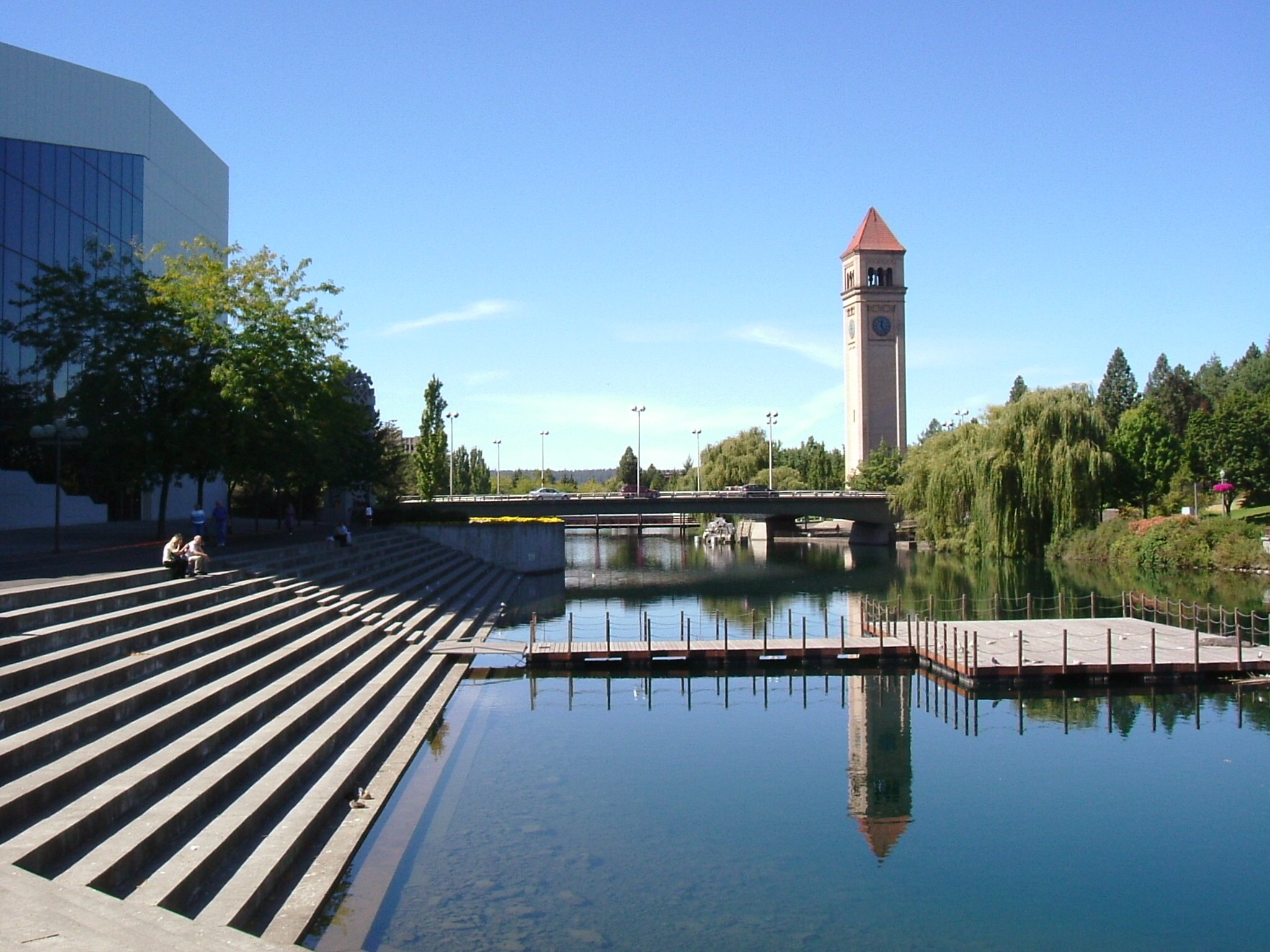 Riverfront Park